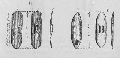 Illustration 36: H,I Shields from Spinifex and Sand